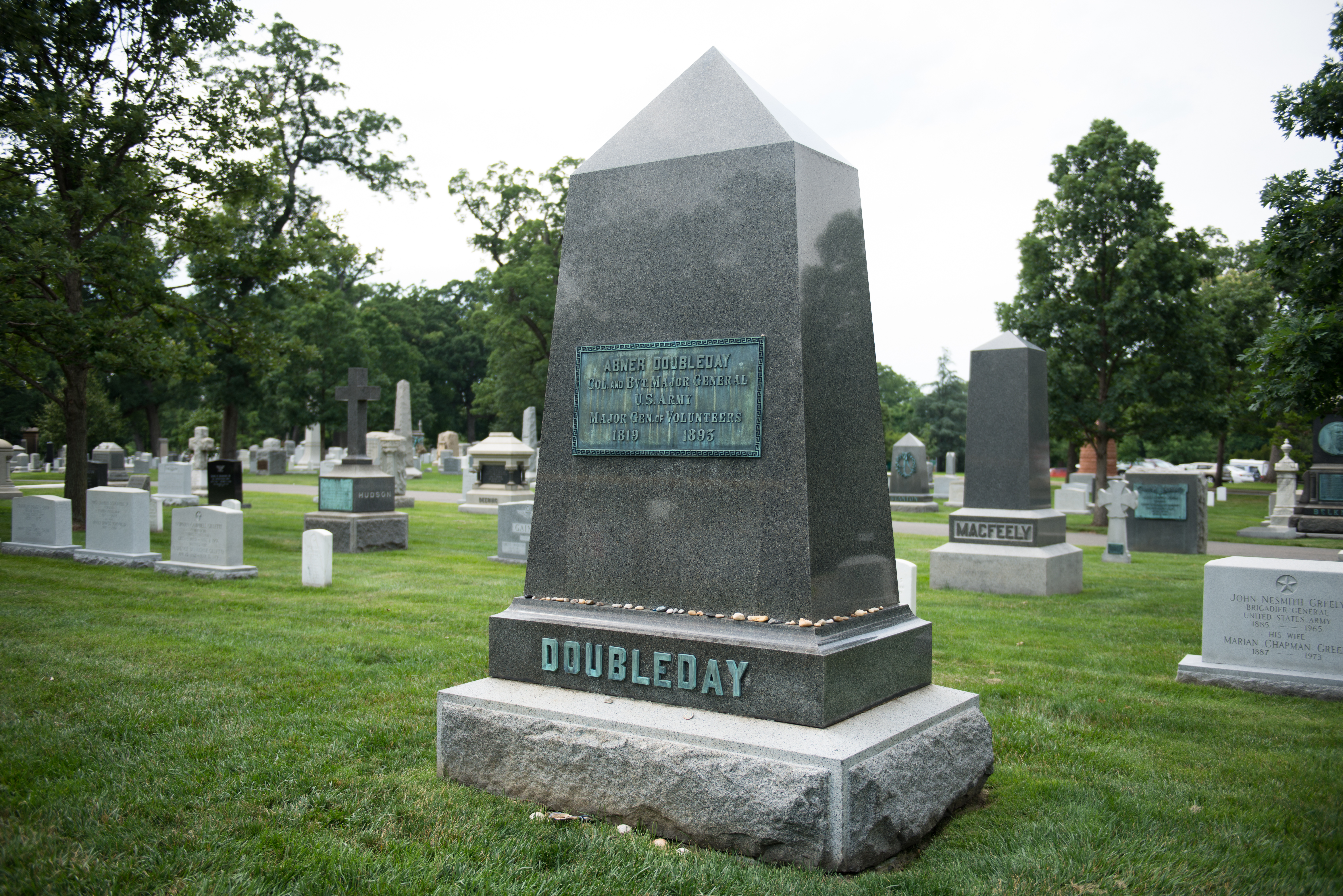 Abner Doubleday, buried in Arlington National Cemetery’s Section 1, grave 61, was a Brevet Brigadier General in the U.S. Army. Doubleday is often credited with having invented baseball. (U.S. Army photo by Rachel Larue/released)